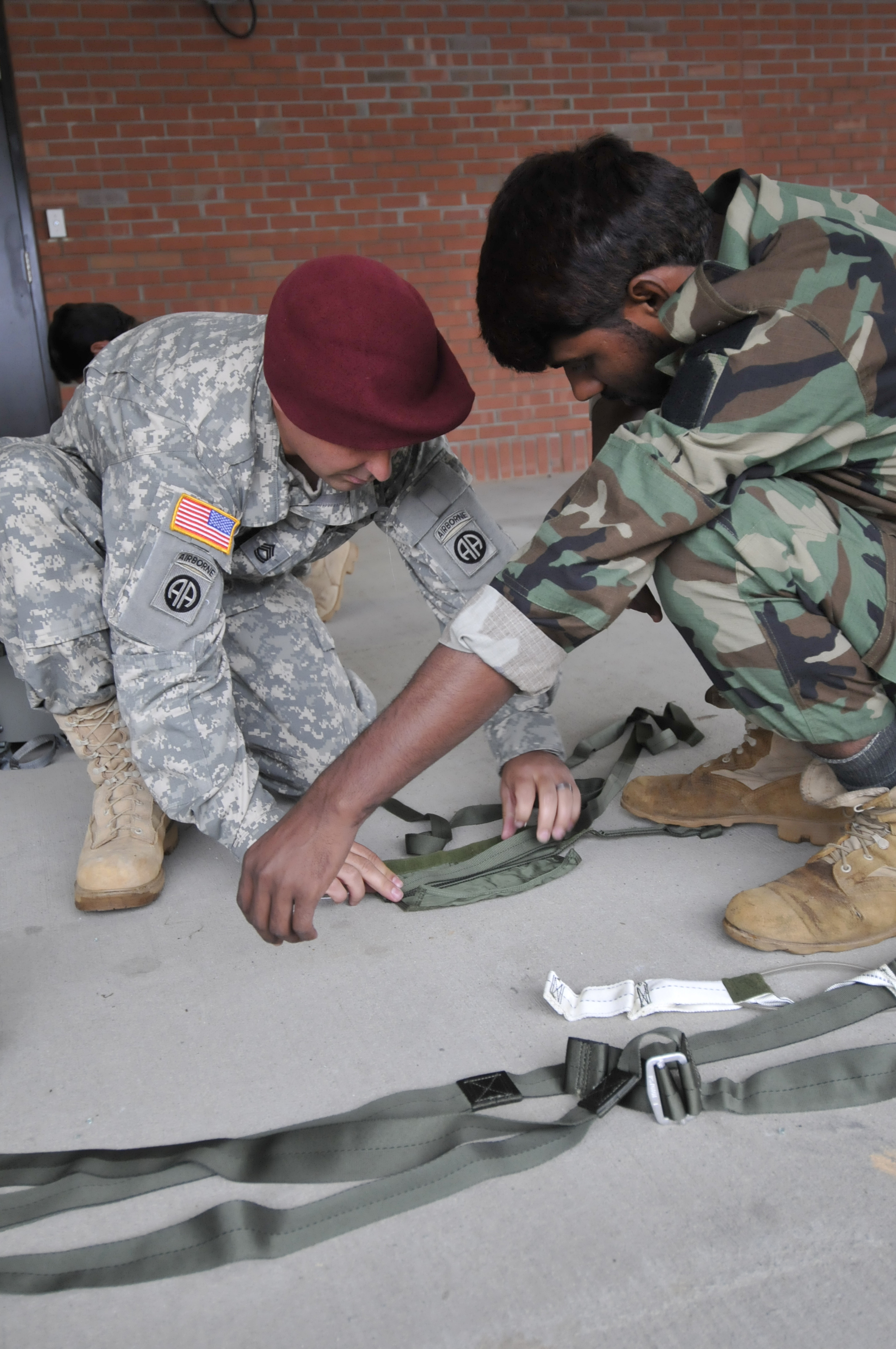 Sgt. First Class Chad Louis of A Co., 1st Battalion, 325th Airborne Infantry Regiment, 2nd Brigade Combat Team, 82nd Airborne Division, shows a Pakistani Paratrooper how to rig an alice pack on 6 October for airborne operations as part of Operation Bright Star. Troopers from Egypt, Kuwait, Pakistan and Germany arrived to Fort Bragg on 26 September to begin the training, which gives troopers an opportunity to work alongside coalition forces. 82nd Paratroopers will travel to Egypt on 12 October to complete the exercise.